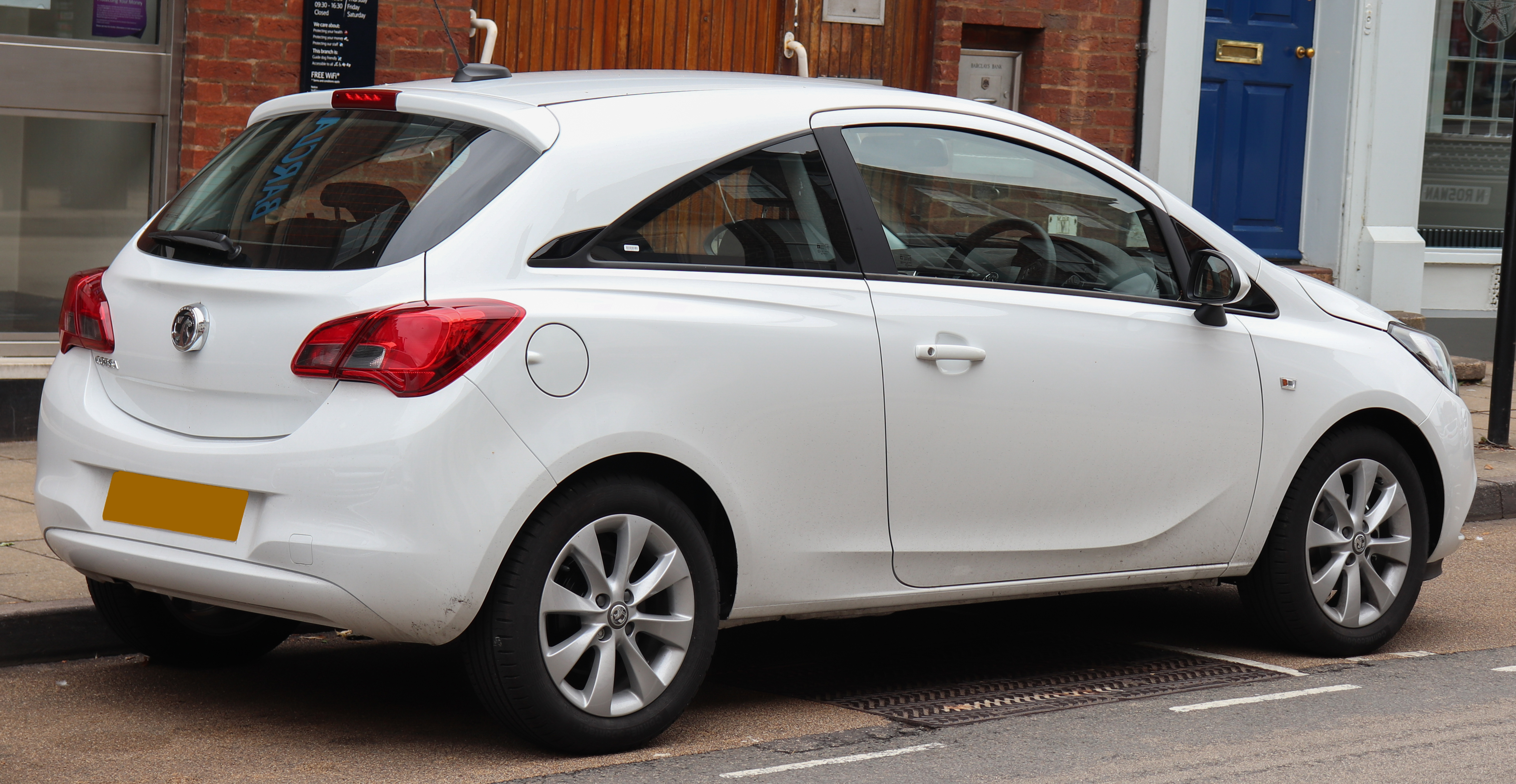 2018 Vauxhall Corsa Energy AC 1.4 Rear Taken in Warwick